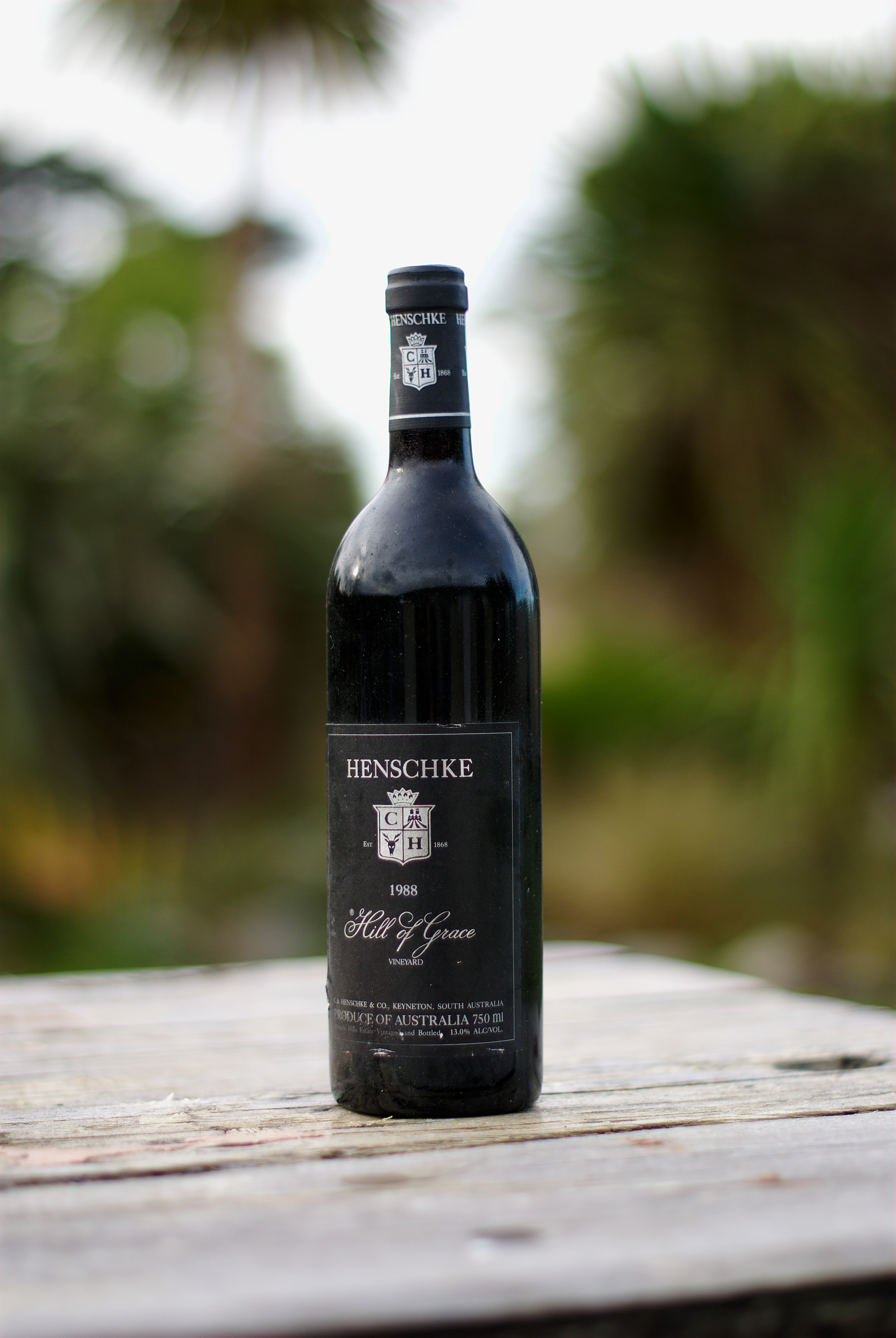 A bottle of Henschke 'Hill of Grace' 1988 (front).jpg